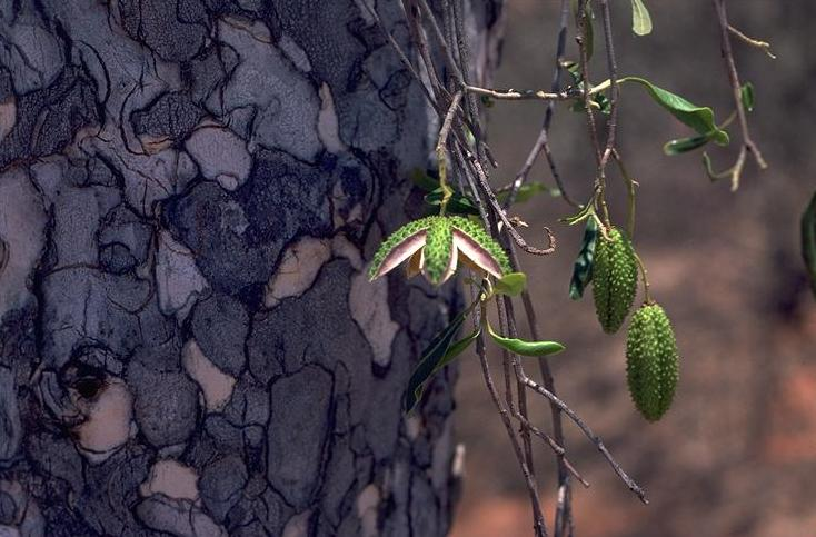 Fruit of Flindersia maculosa, near Cobar, New South Wales